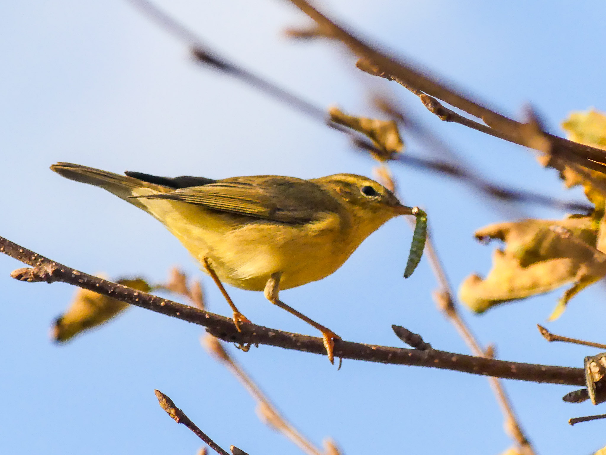 Willow Warbler in the Garden